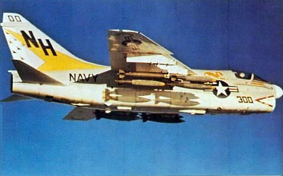 A U.S. Navy LTV A-7E-7-CV Corsair II (BuNo 157530) of attack squadron VA-192 Golden Dragons in 1970/71. VA-192 was assigned to Attack Carrier Air Wing 11 (CVW-11) aboard the aircraft carrier USS Kitty Hawk (CVA-63) for a deployment to Vietnam from 6 November 1970 to 17 July 1971. The A-7E 157530 was shot down by flak over North Vietnam on 2 November 1972, still in service with VA-192. The pilot ejected safely and was recovered.